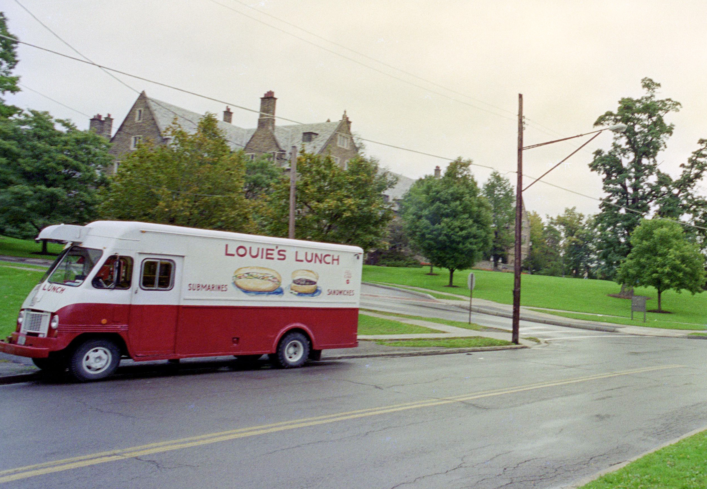 Louie's Lunch parked on North Campus. Cornell University, Fall 1994